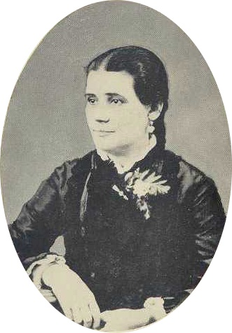 Teuira Henry (1847–1915), considered the most renowned authority on ancient Tahitian society. She was the granddaughter of English missionary John Muggridge Orsmond.